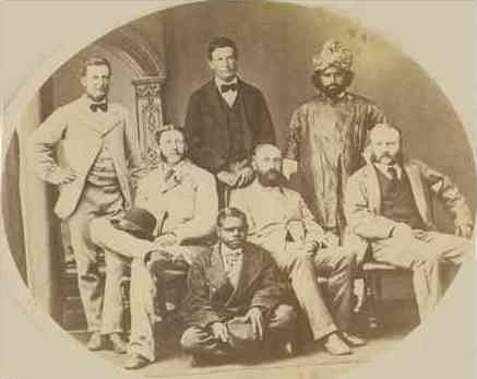 This is a group photograph of Ernest Giles' expedition party for his fourth expedition, which started in May 1875. Standing, from left to right: Peter Nicholls, Alex Ross, Saleh. Seated: Jess Young, Ernest Giles, W. H. Tietkens. Sitting on ground: Tommy Oldham.